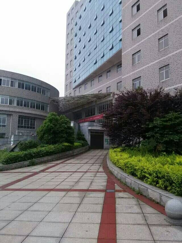 Shaoyang Medical College is a college in Shaoyang, Hunan, China.